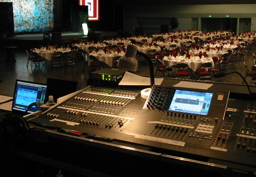 A Yamaha M7CL mixer shown prior to a dinner event. A Dugan Model E automixer is on the mixer's doghouse, showing green LED audio levels. A laptop to the left shows a Smaart spectrograph screen. The location is Santa Clara Convention Center in Santa Clara, California.